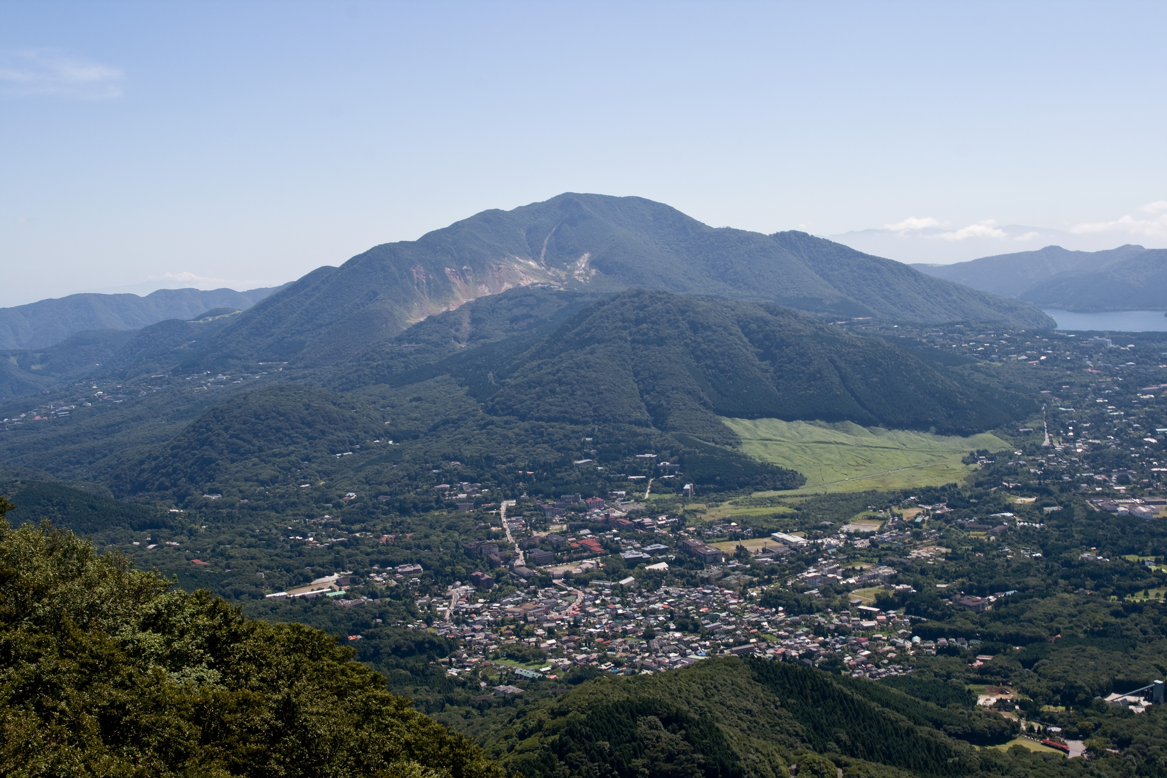 Mt.Kami as seen from Mt.Kintoki in Kanagawa Prefecture, Honshu, Japan.